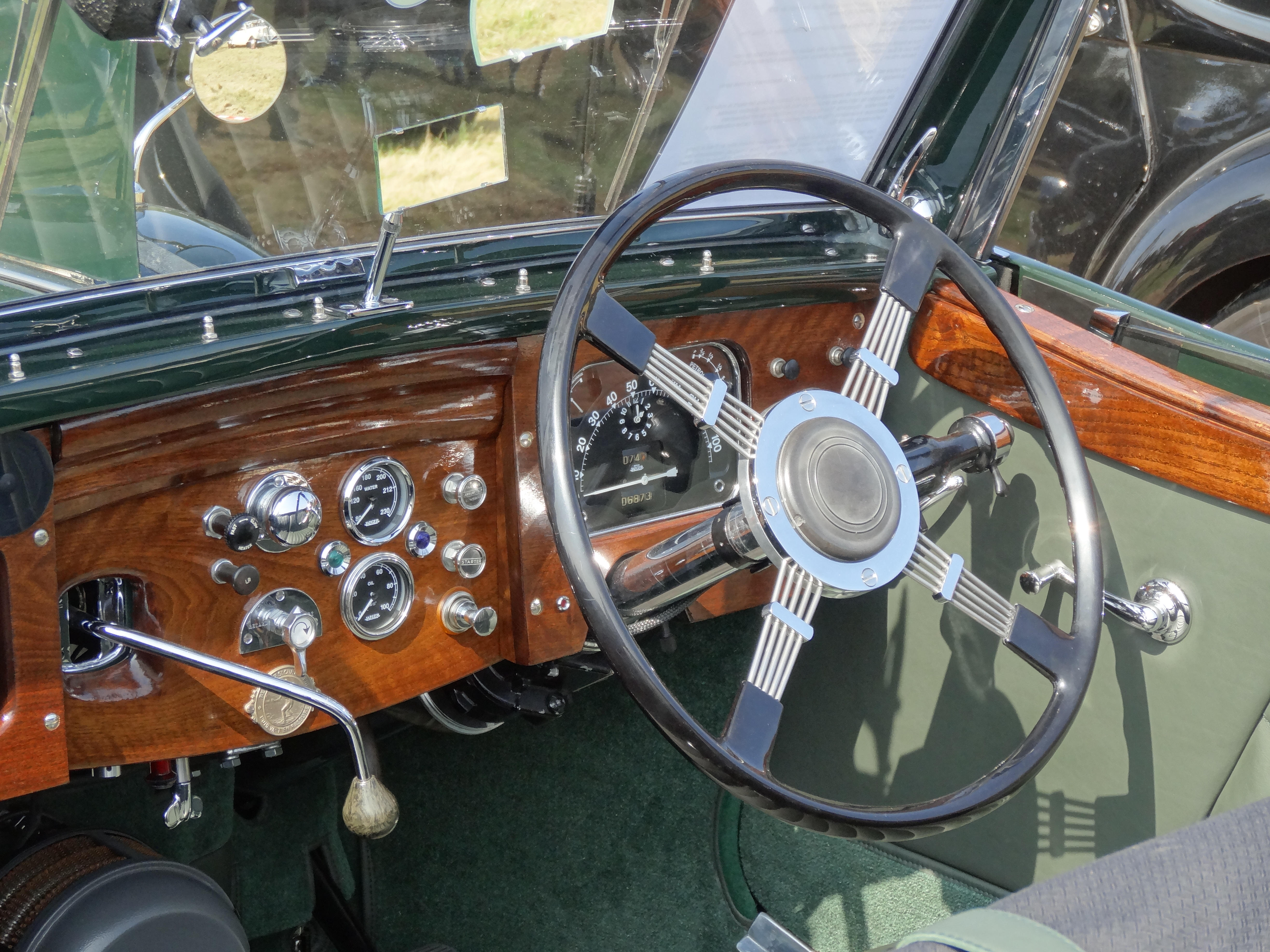 Wooden dashbord of Citroën Traction Avant